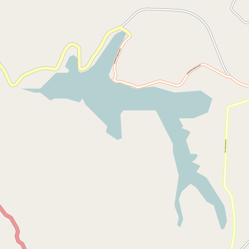 This map may be incomplete, and may contain errors. Don't rely solely on it for navigation.